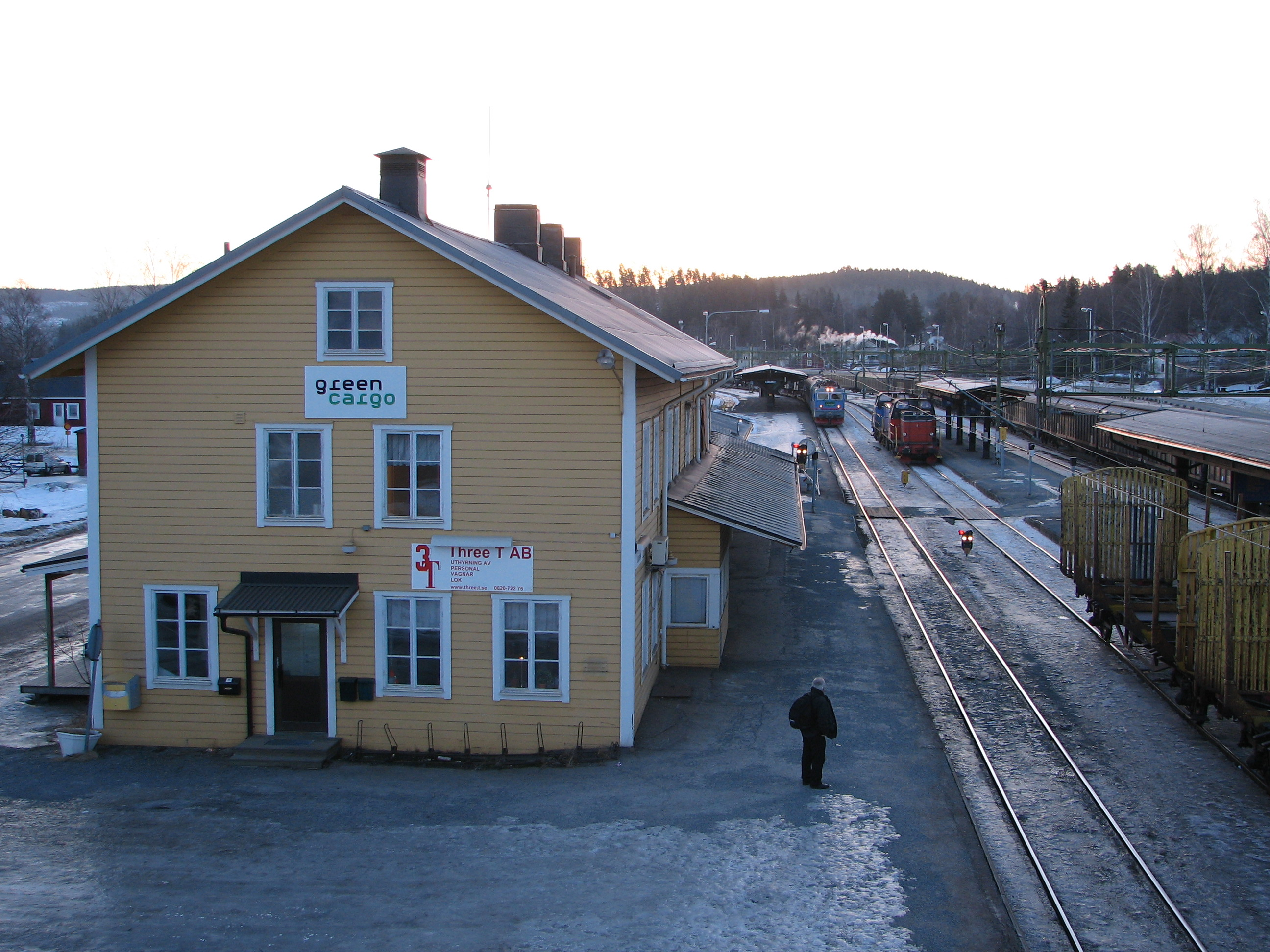 Train driver change at Långsele railway station